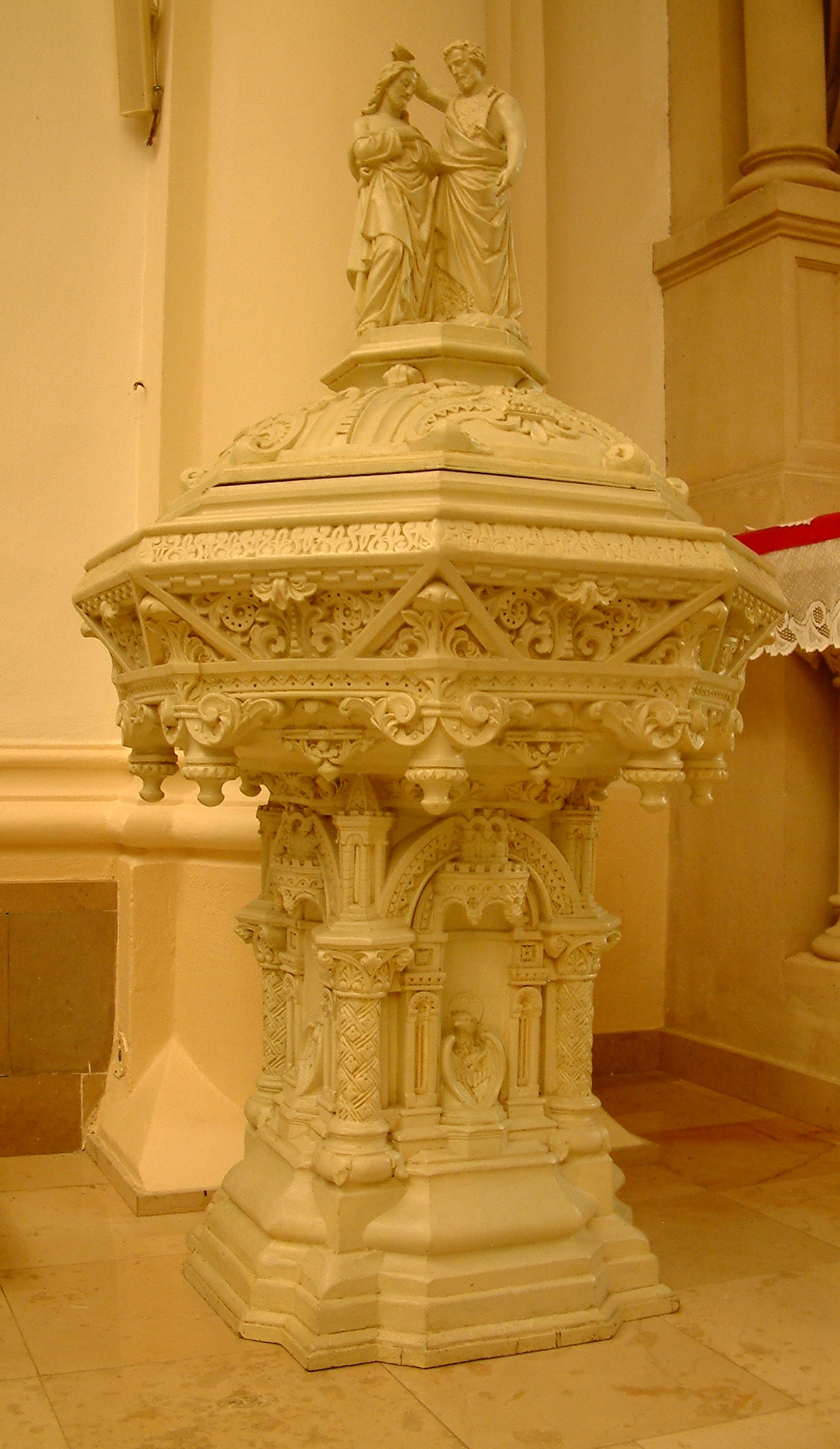 Church of Mother of Sorrow in Poznań, Baptismal font.